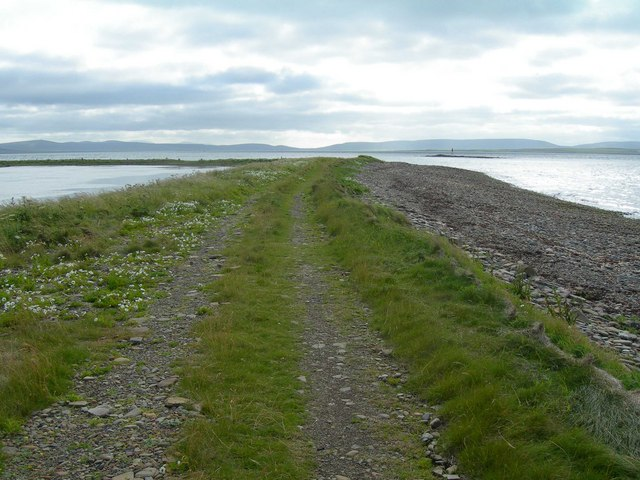 Raised beach separating Vasa Loch (left) from the sea on the west side of Shapinsay in the Orkney Islands.